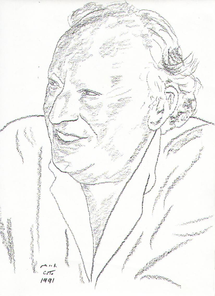 Drawing of Leon Uris made by Chaim Topol. Donated To Commons under cc-by-sa license in honor of Jordan River Village